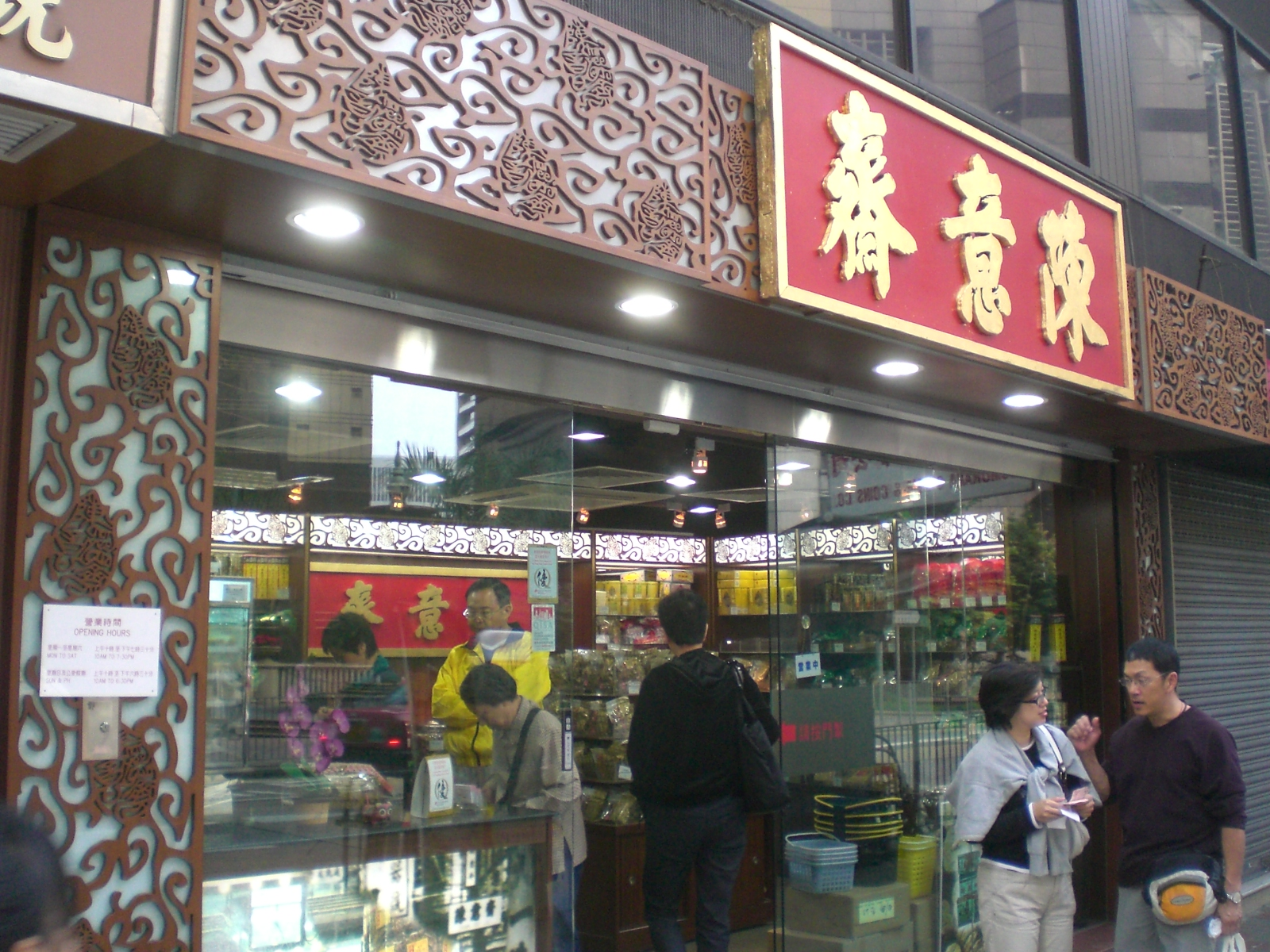 Queen's Road, 皇后大道中陳意齊, Chan Yee Jai Bakery shop.